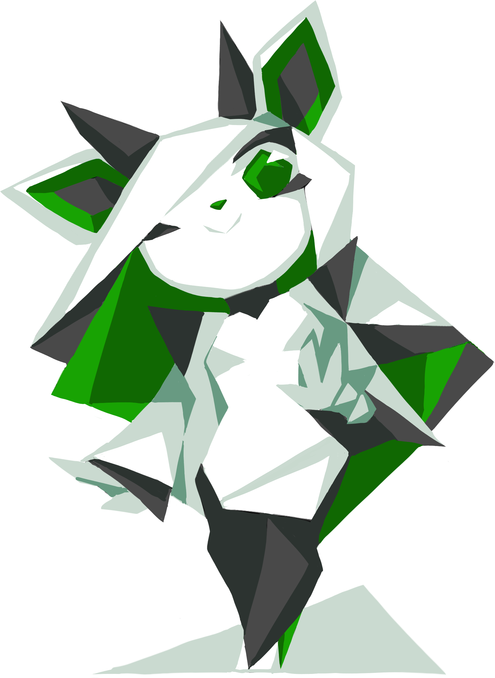 Libbie facing the viewer with her head tilted.